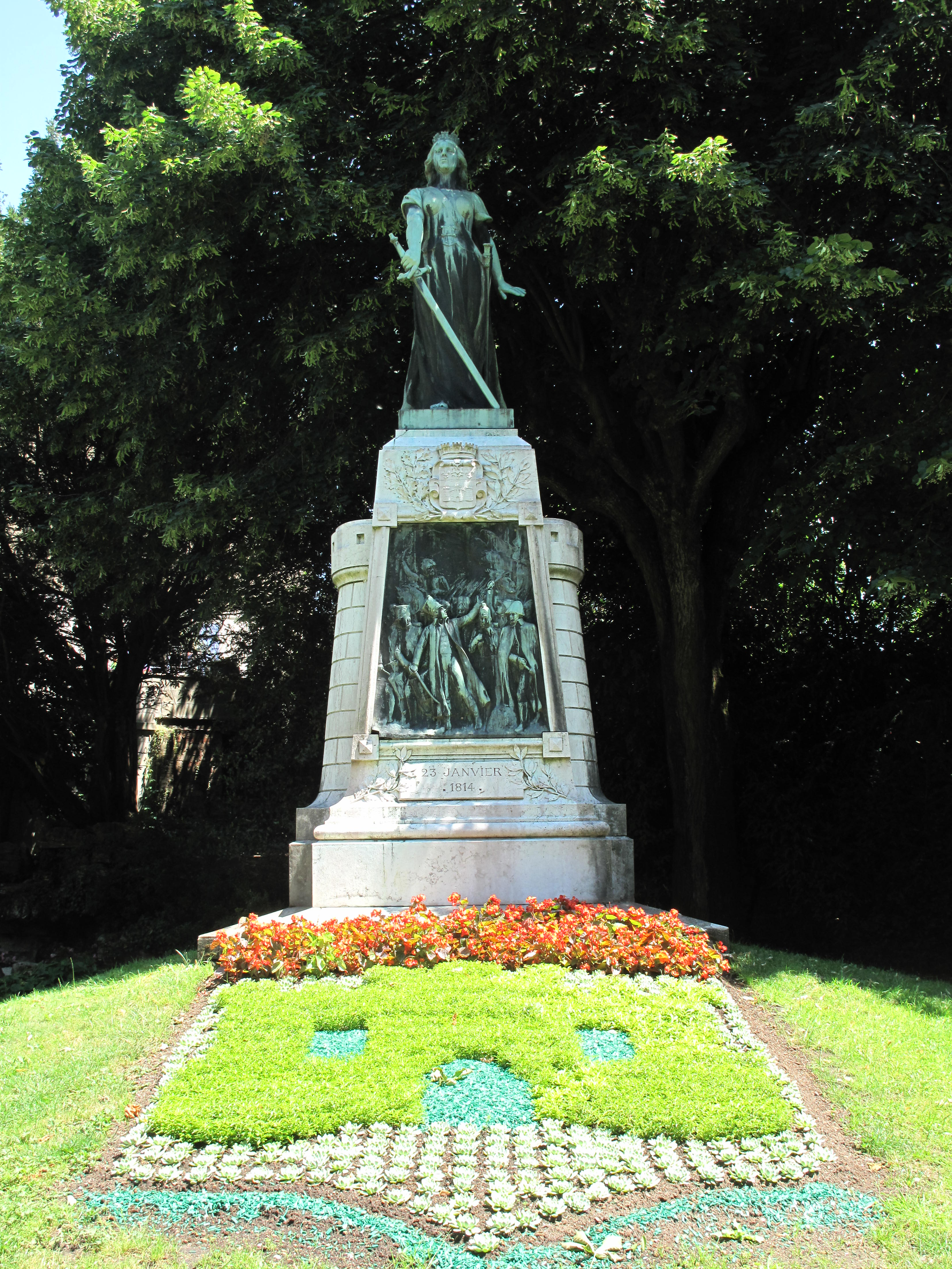 Monument in memory of the 300 citizens of Tournus who joined the Napoleon's army during the retreat of 1814 : Tournus (Saône-et-Loire, France).